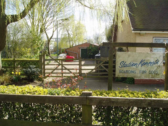 Station Kennels. As well as being dog kennels today, this location used to be the location of Winslow Road on a now abandoned and raised railway line. The only remnant of the station can be seen to the left of the red brick structure - the start of the platform can be seen with some plastic bags being stored on it. A phone number has been digitally removed from the sign to protect privacy.